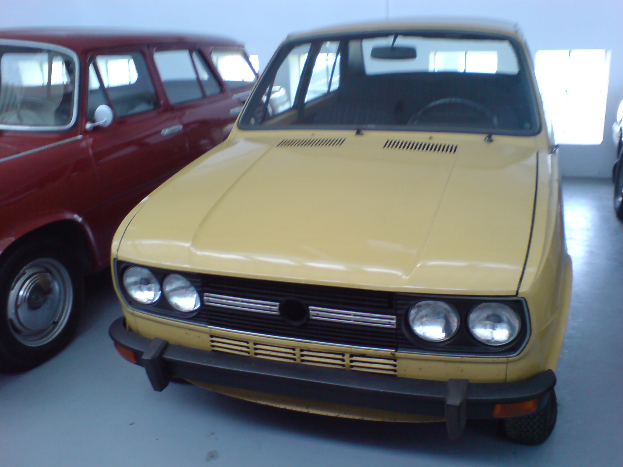 Protoype of Škoda 742 orthodox in depository of Škoda Museum in Mlada Boleslav.